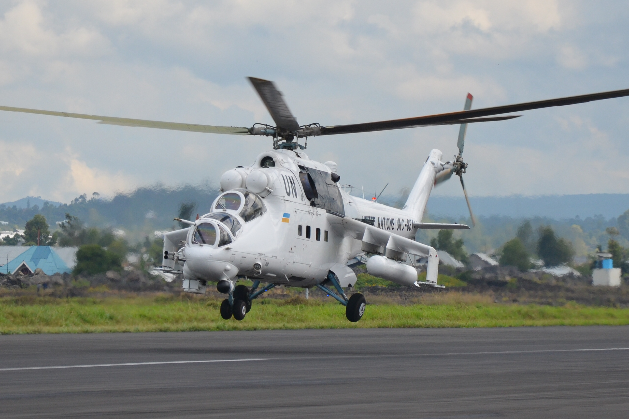 DR Congo,Ukrainian aviation unit. MONUSCO. The crew of the Ukrainian Mi-24 during the tasks the United Nations Mission DR Congo: Flights to patrol, fire support of ground forces, armed support aircraft MONUSCO. By Anatoliy Stelmah